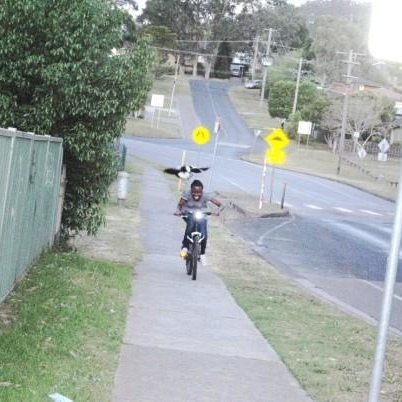 Girl being swooped by magpie whilst riding a bike